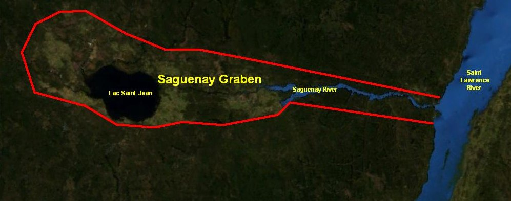 Image of the Saguenay Graben in southern Quebec.